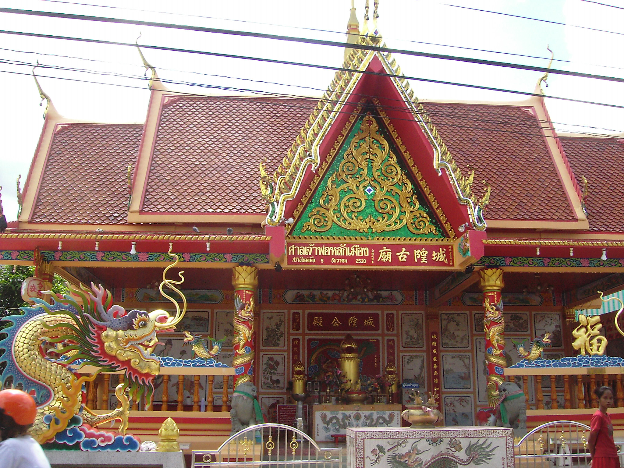 Shrine of the city pillar of Yasothon, the tutelary spirit Chao Po Lakh Meuang Yasothon